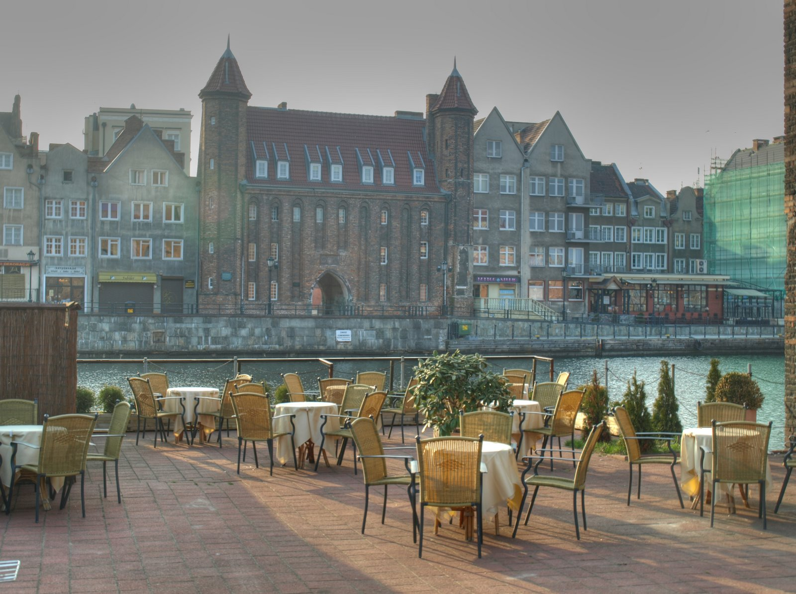 Photographs of the Ołowianka Island Complex: Polish Baltic Philharmonic, Central Maritime Musem and Hotel Królewski